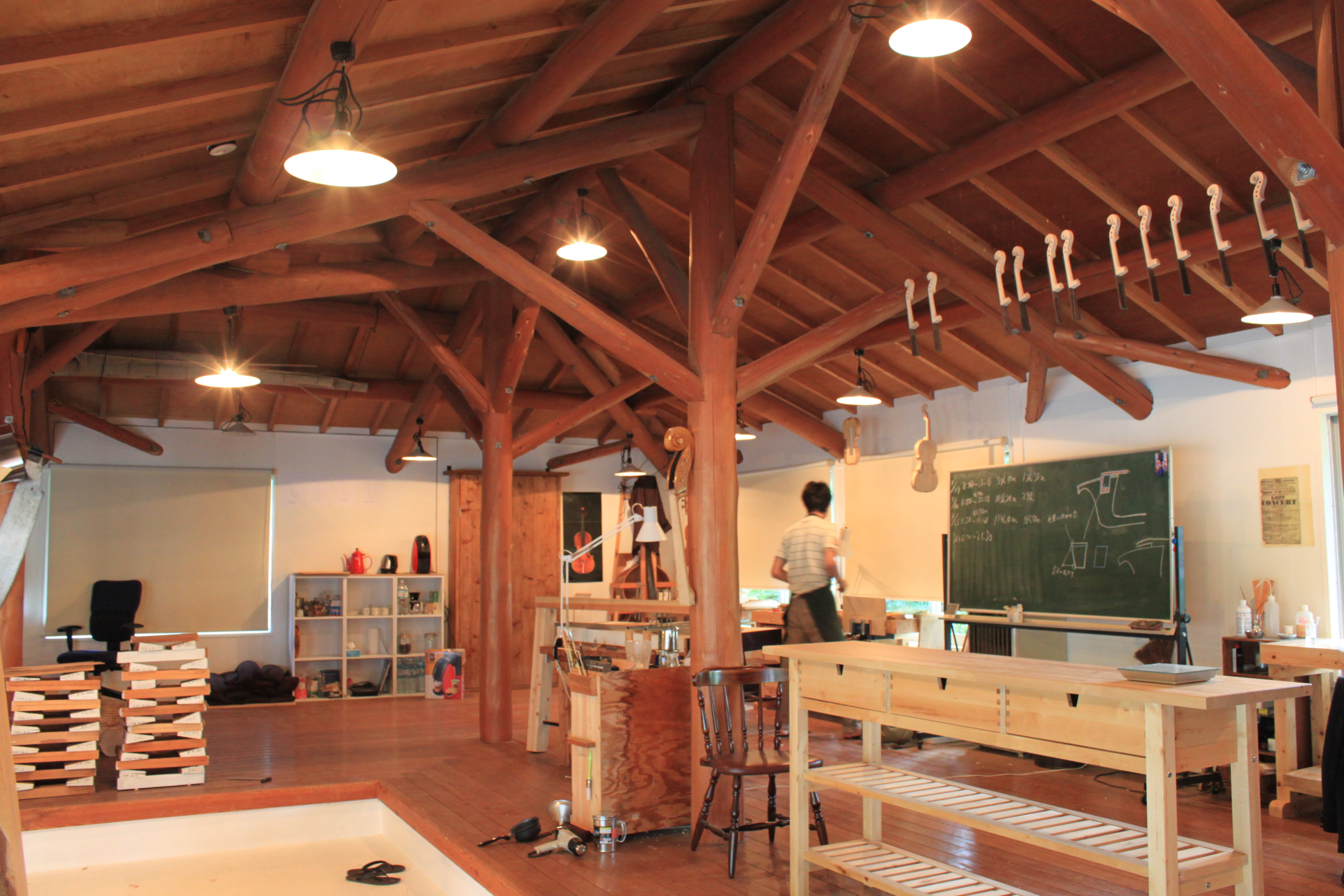 misasa museum,tottori japan